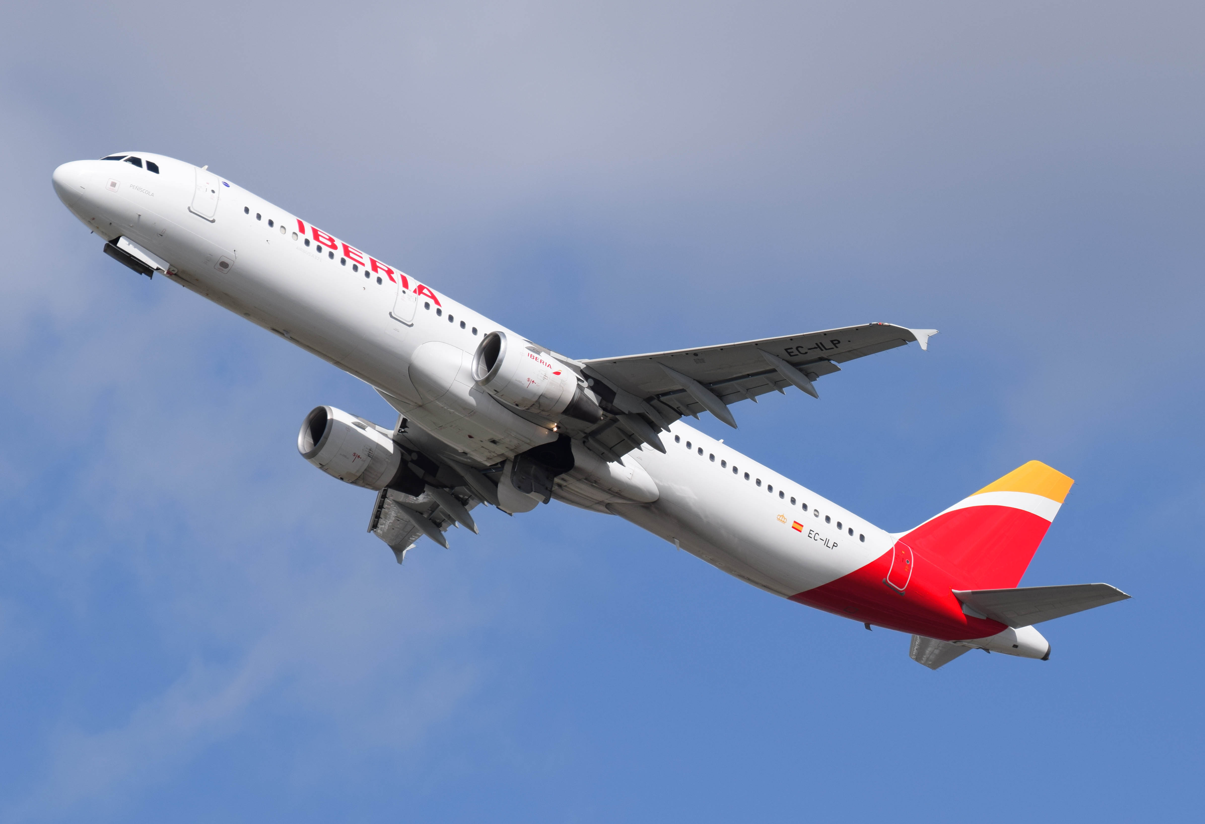 Iberia Airbus A321-200 (EC-ILP) departs London Heathrow Airport, England. The undercarriages are still retracting.